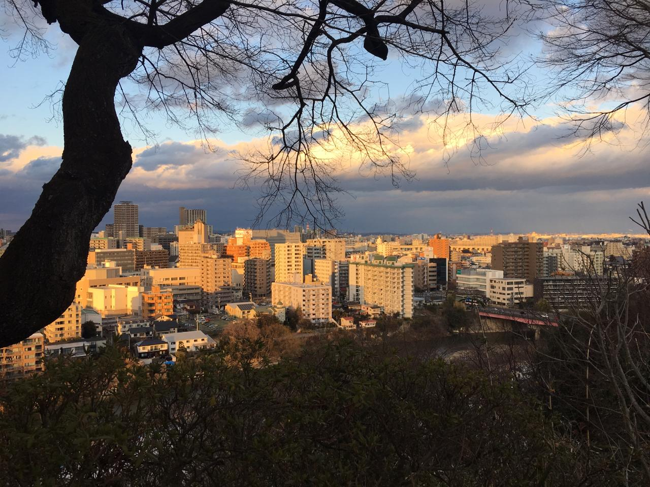 View of Sendai from Daimanji Temple